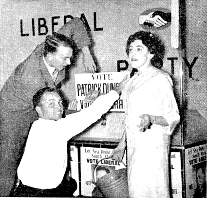 The picture in the newspaper Contact appear on 31 October 1959. The newspaper no longer exists.